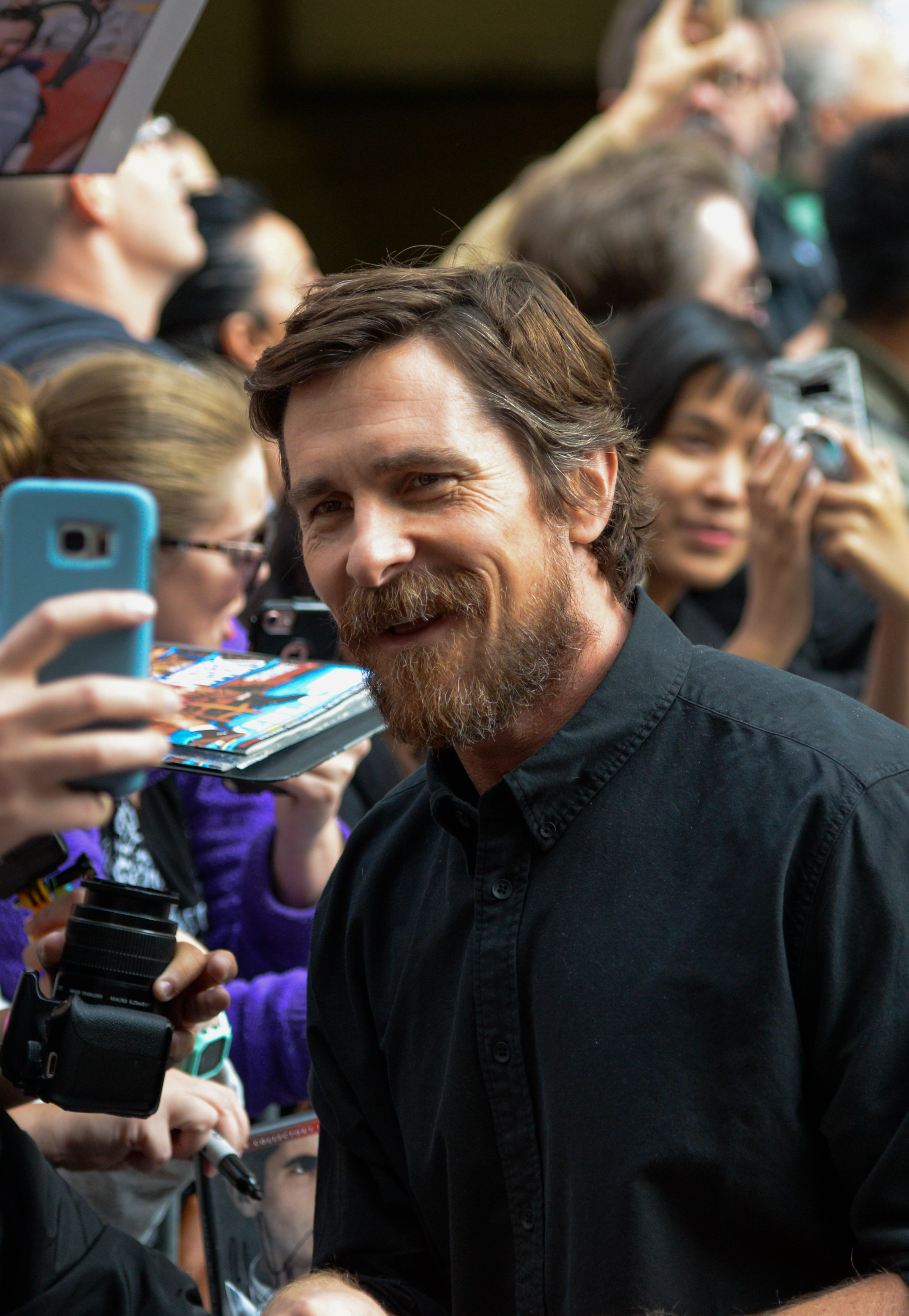 TIFF 2019 christian bale